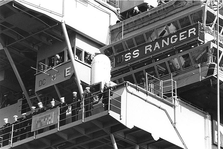 Crewmembers man the rails by the carrier's island, as she departs Naval Air Station, North Island, California, on 24 February 1989 to begin a western Pacific deployment.